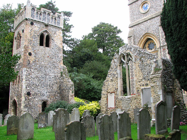 Ruins of the former St Andrew's parish church, Thorpe St Andrew, Norfolk. In the background on the right is the Gothic revival tower added to the new parish church in 1882.